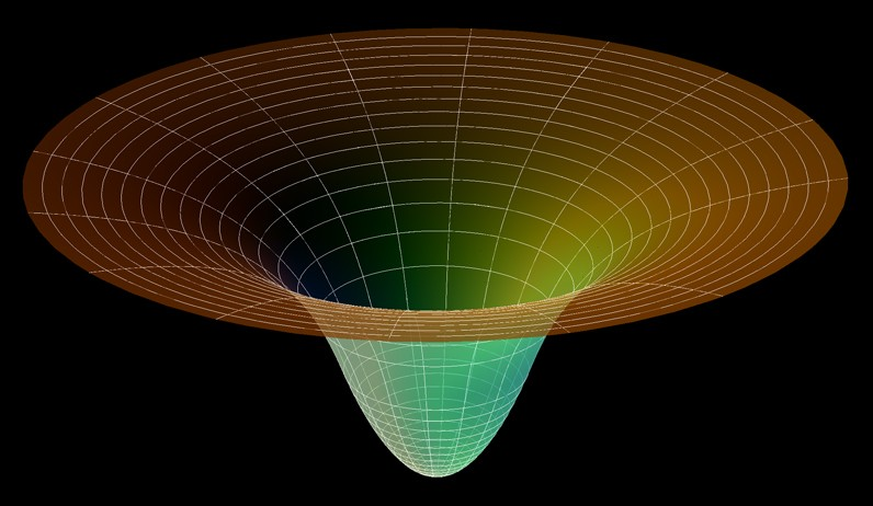 An illustration of the cosmological redshift. To an observer positioned at the centre of a gravitational well, the periphery of the well appears to be increasingly redshifted.